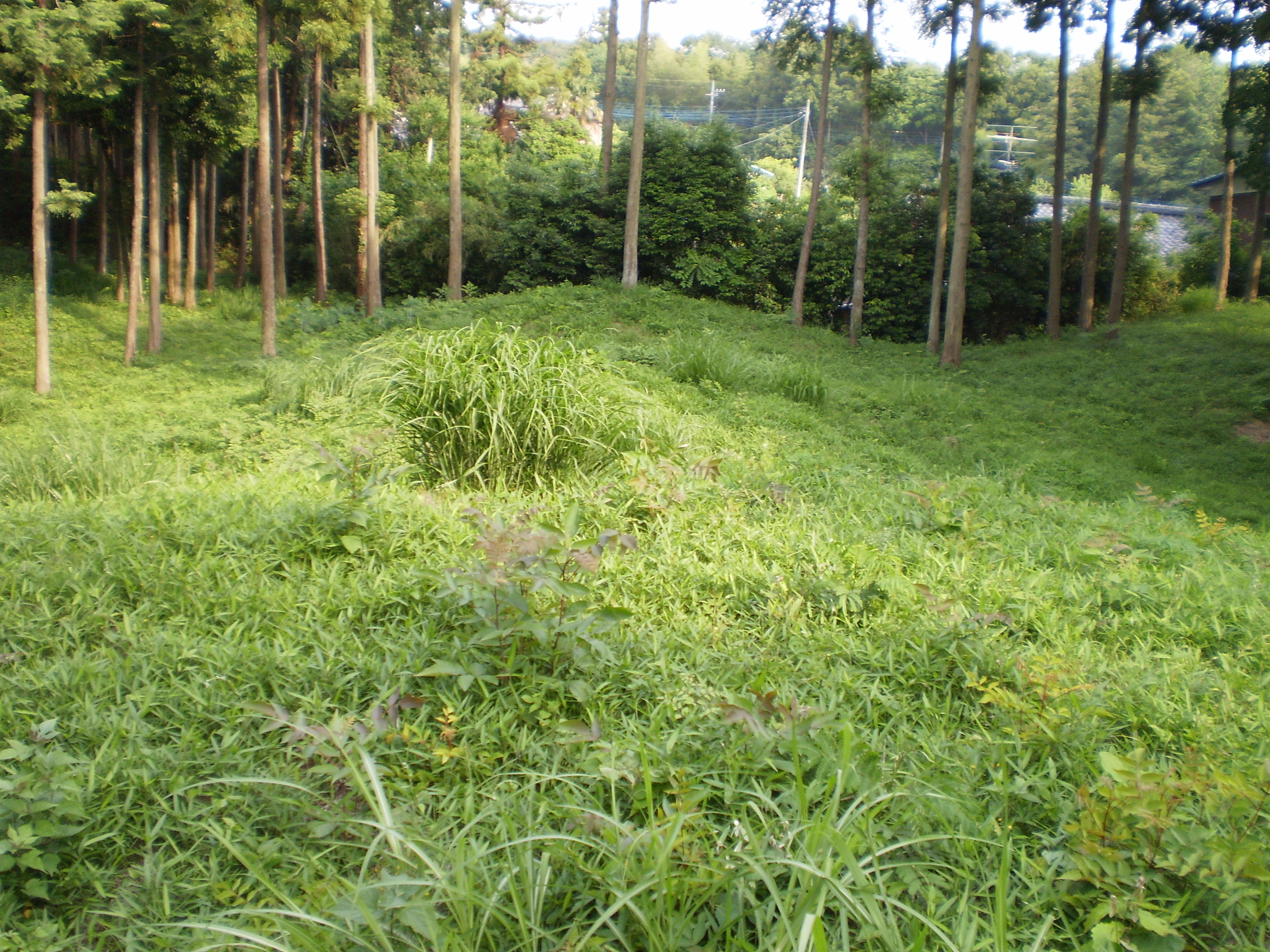 The_Mound 2,The first branch cluster,Shio Kofungun cluster of tumuli,City of Kumagaya,early 4th century,japan